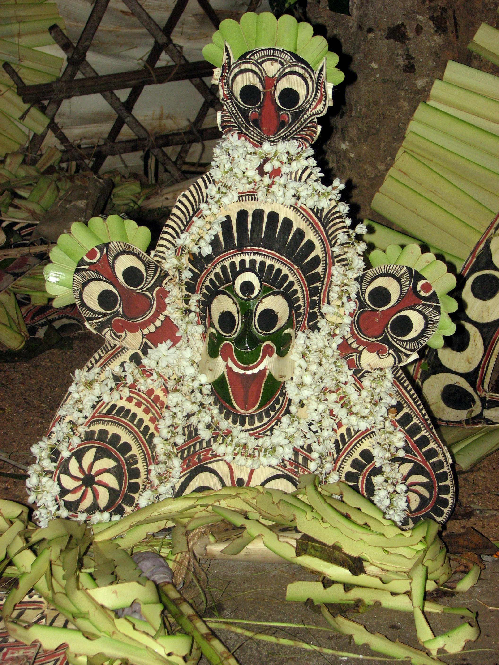 Kolam of Darika. Padayani at Kottangal Devi Temple